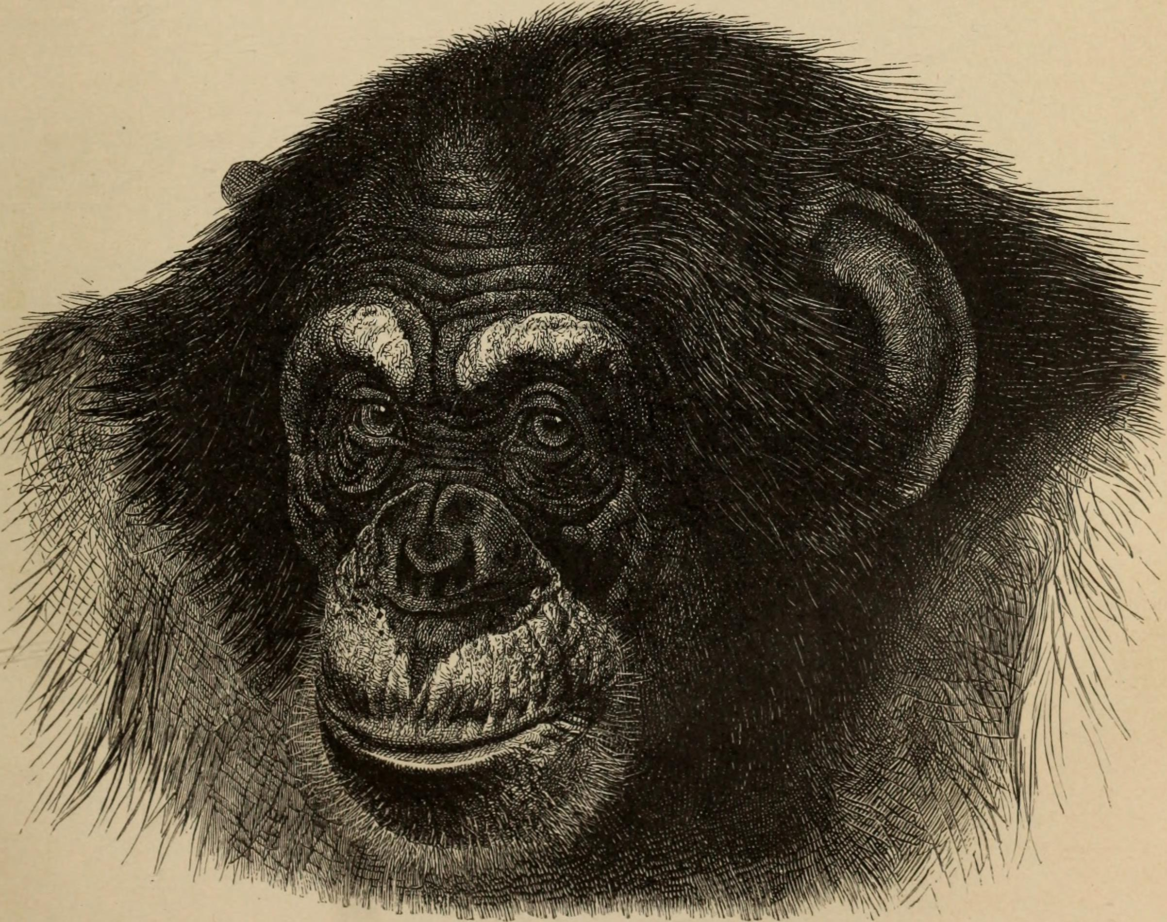 Title: Meyers Konversations-Lexikon : eine Encyklopädie des allgemeinen Wissens Year: 1890 (1890s) Authors: Meyer, Hermann Julius, 1826-1909 Subjects: Encyclopedias and dictionaries, German Publisher: Leipzig Wien : Verlag des Bibliographischen Instituts Text Appearing Before Image: Orang-Utan (Pithecus satyrus). (Art. Orang-Utan.) Text Appearing After Image: Schimpanse (Troglodytcs niger). (Art. Schimpanse.) Meyers Konv.-Lexikon, 4. Aufl. Bibliogr. Institut in Leipzig. Zum Artikel »Affai«.